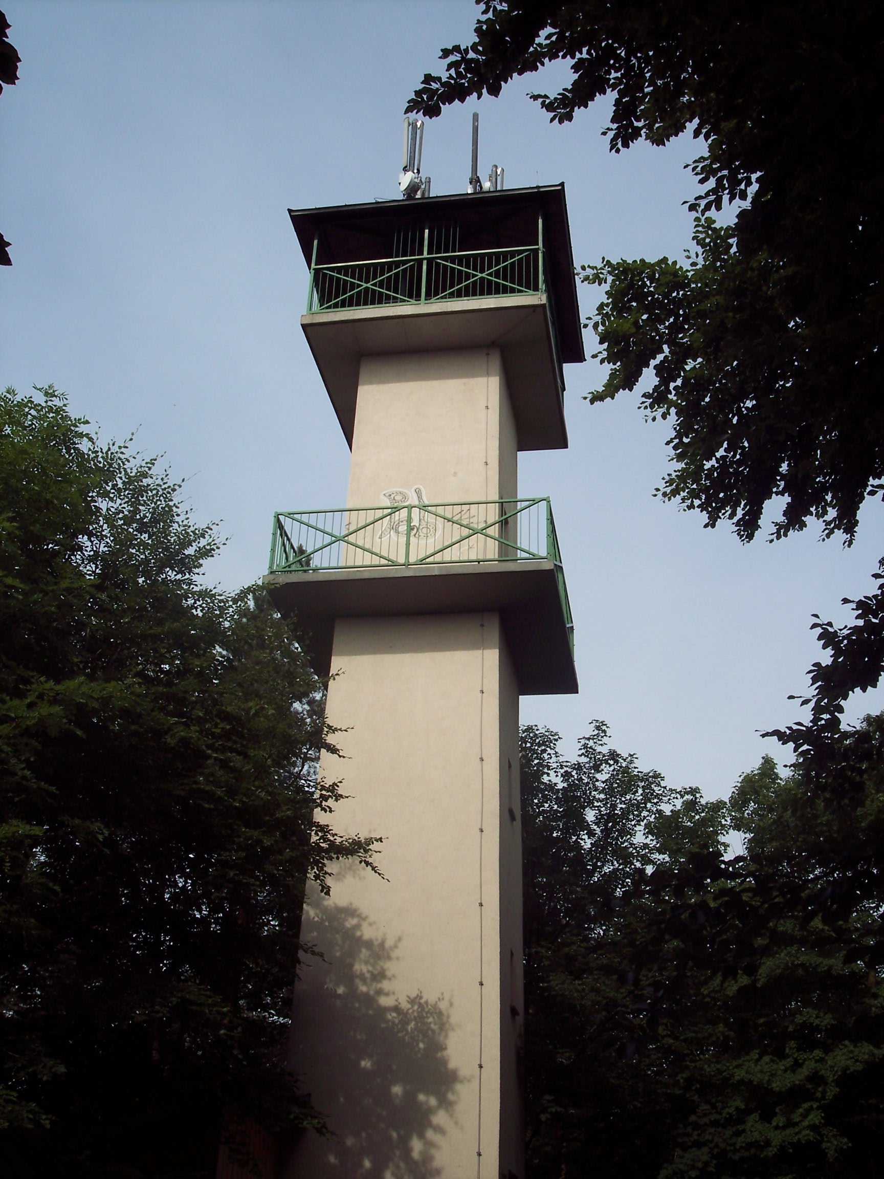 The Berlin tower of Datterode.